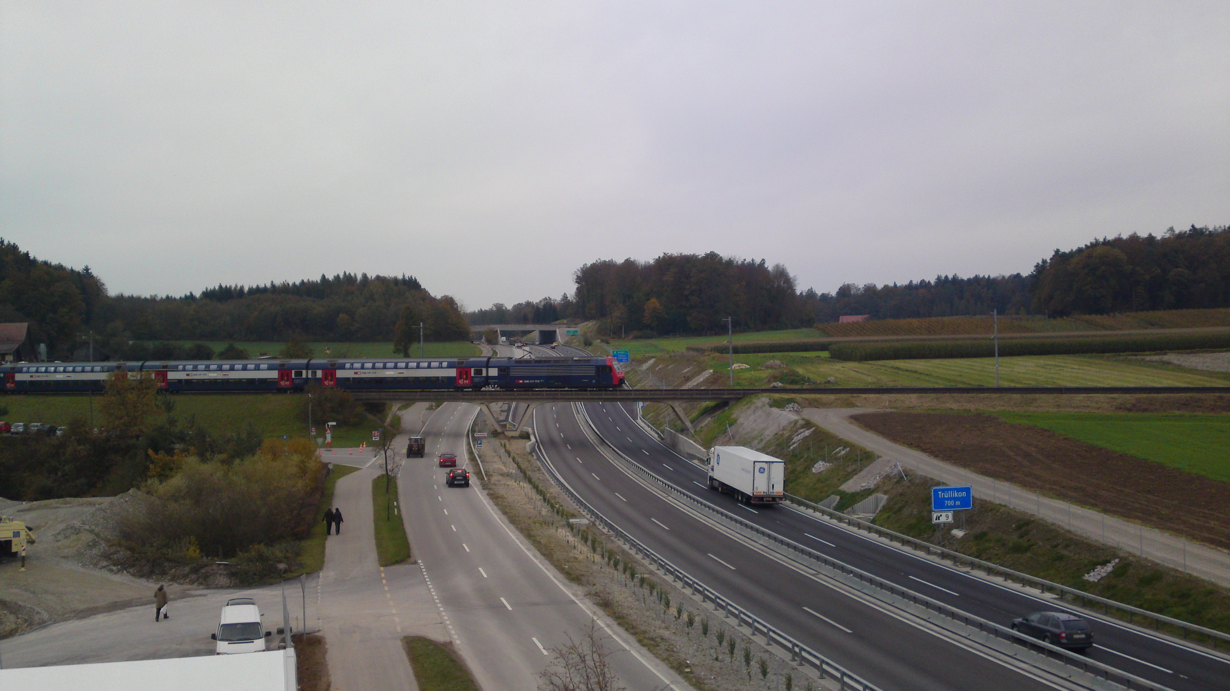 Opening to traffic of the "Miniautobahn" at Kleinandelfingen